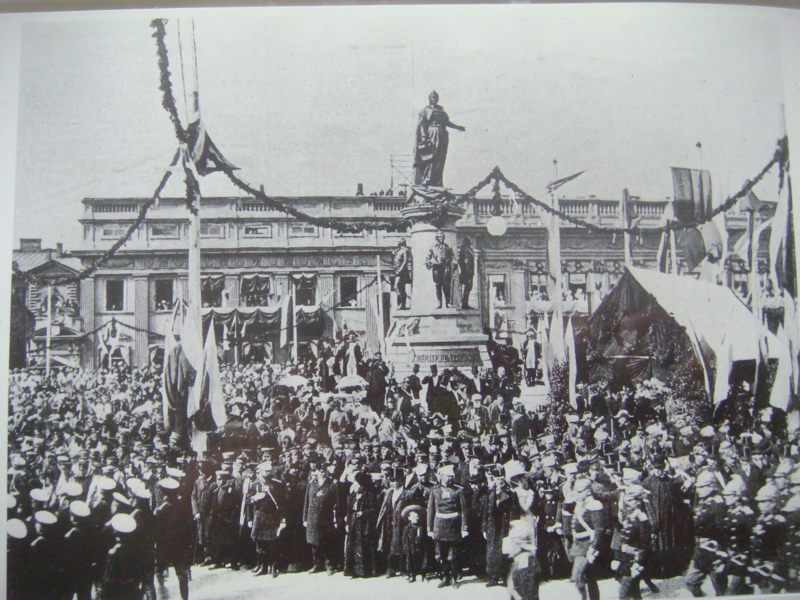 Photo of grand opening of the monument to Catherina the Great in Odessa in 1900